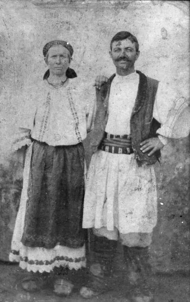 Dalboșeț folk costume in 1900